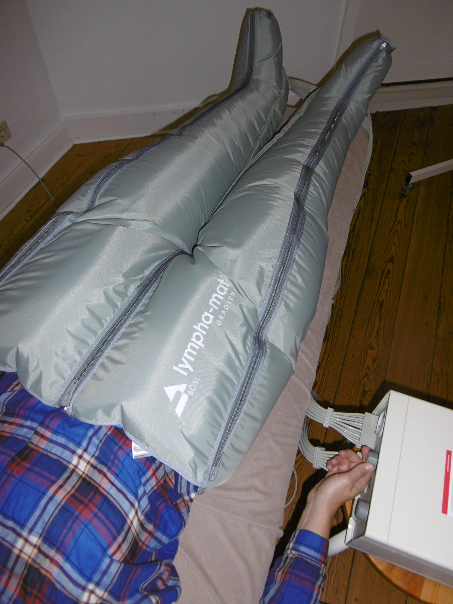 pneumatic device for compression therapy and lymphatic drainage